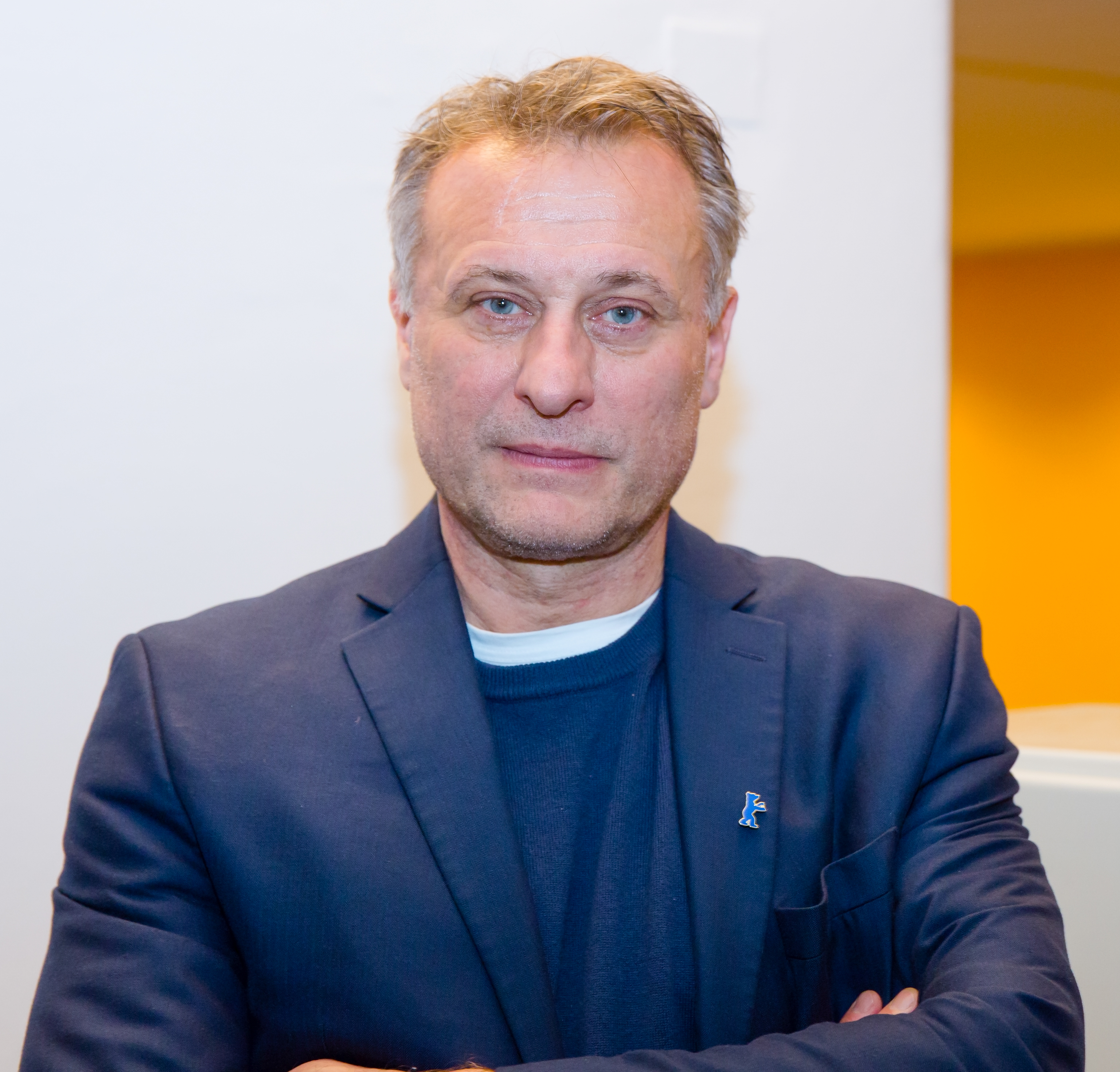 Actor Michael Nyqvist at the Austrian premiere of Colonia at Votivkino in Vienna.